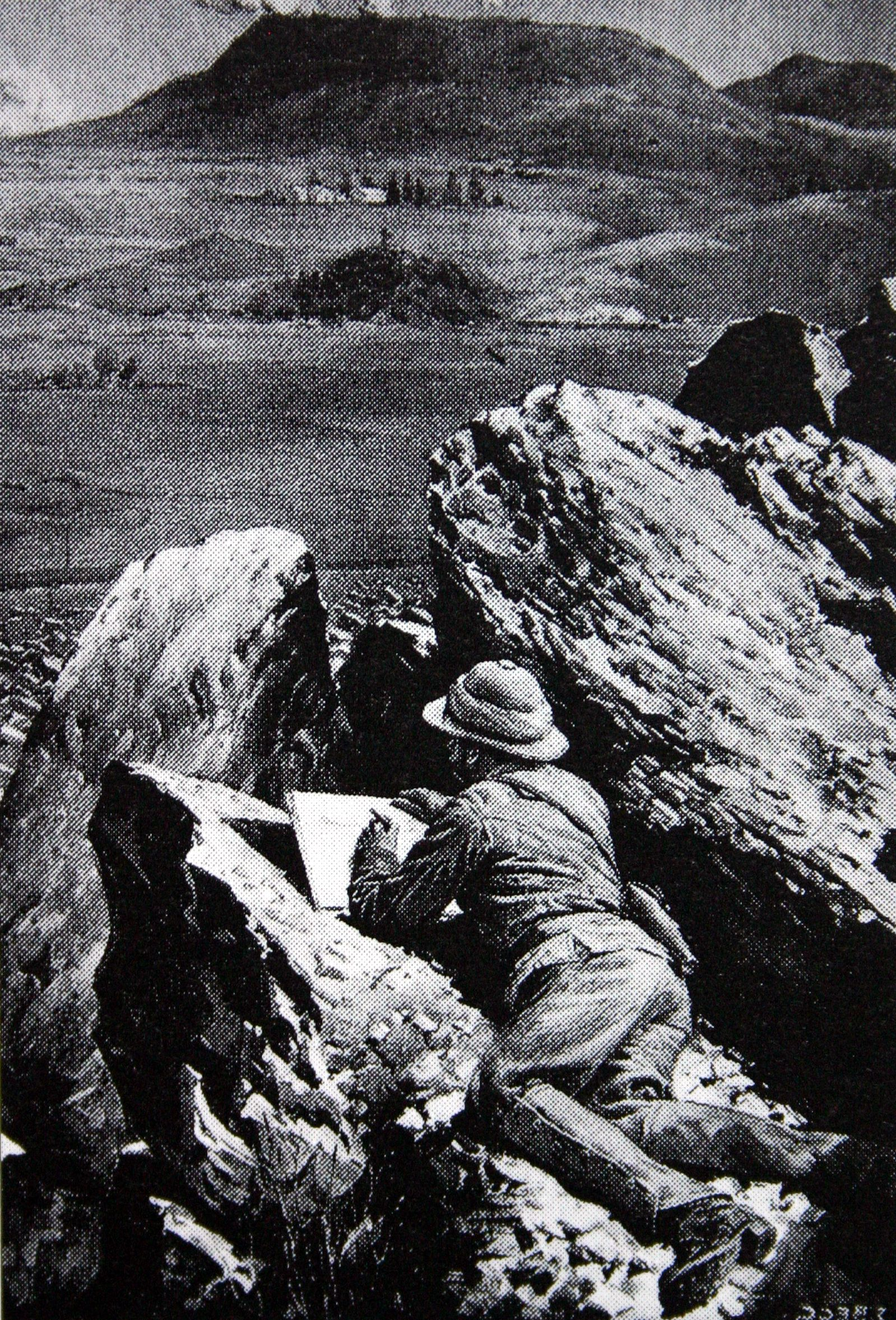 Samuel Begg painted Melton Prior sketching the Battle of Nicholson's Nek